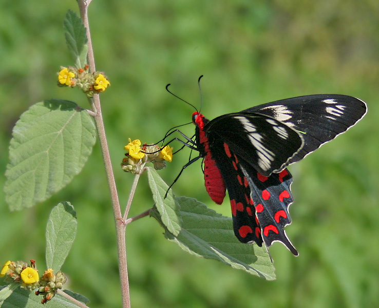 Crimson Rose Atrophaneura hector in Hyderabad , India.